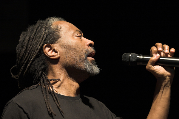 Bobby McFerrin in SYMA Sport and Event Centre, Budapest, Hungary